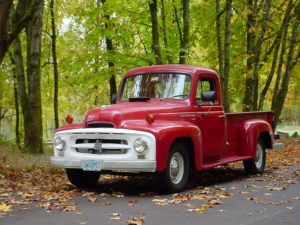 1955 International R130